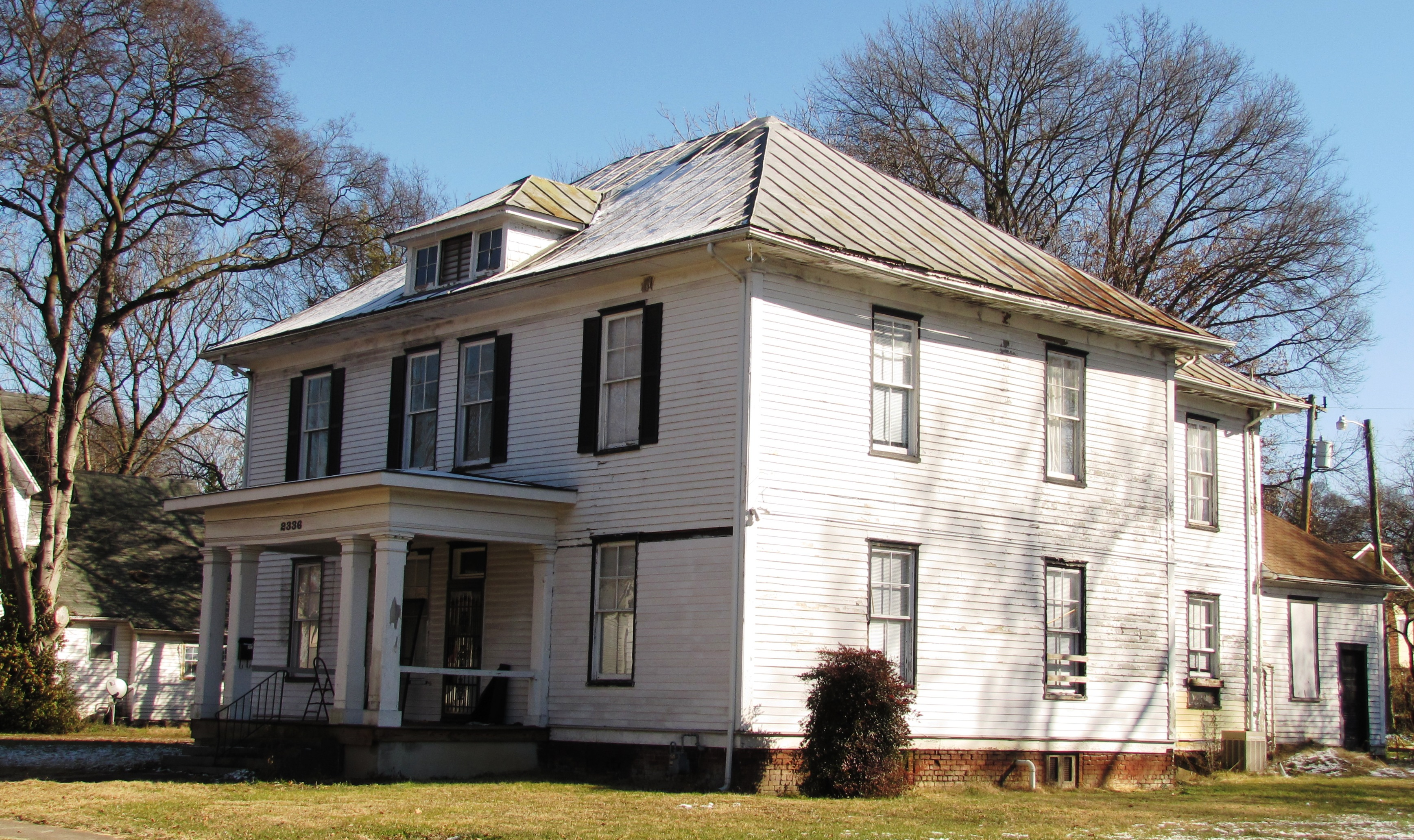 House at 2336 Woodbine Avenue in Knoxville, Tennessee, USA. Originally Knoxville's Florence Crittenton Home, this house is now a contributing property in the NRHP-listed Park City Historic District.